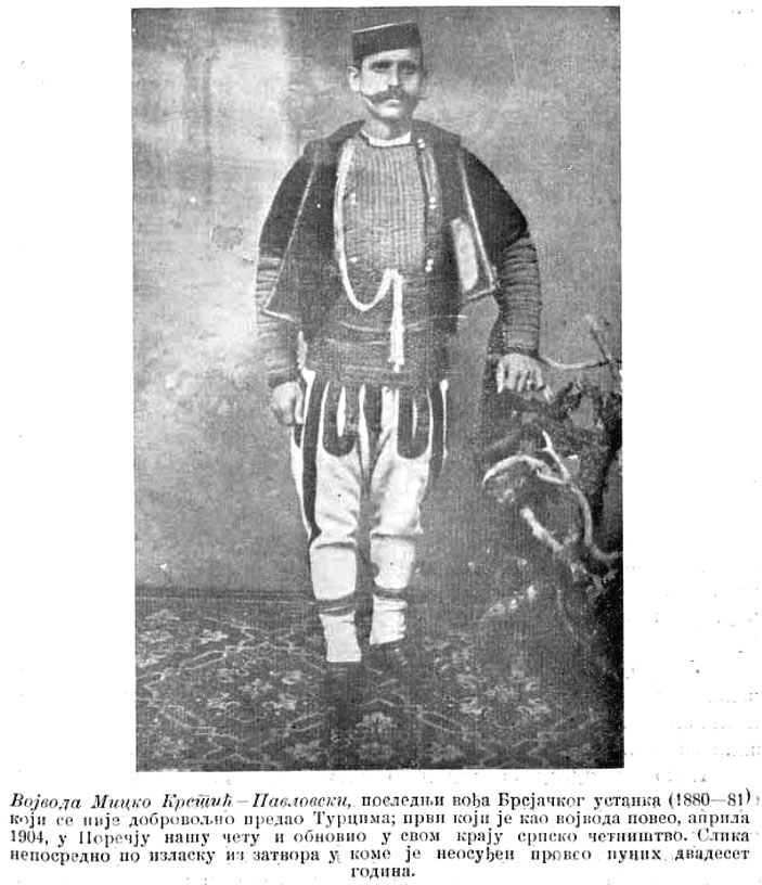 Serbian Chetnik Vojvoda Micko Krstić. Photo taken between 1901 and 1903, after his release from Ottoman jail.